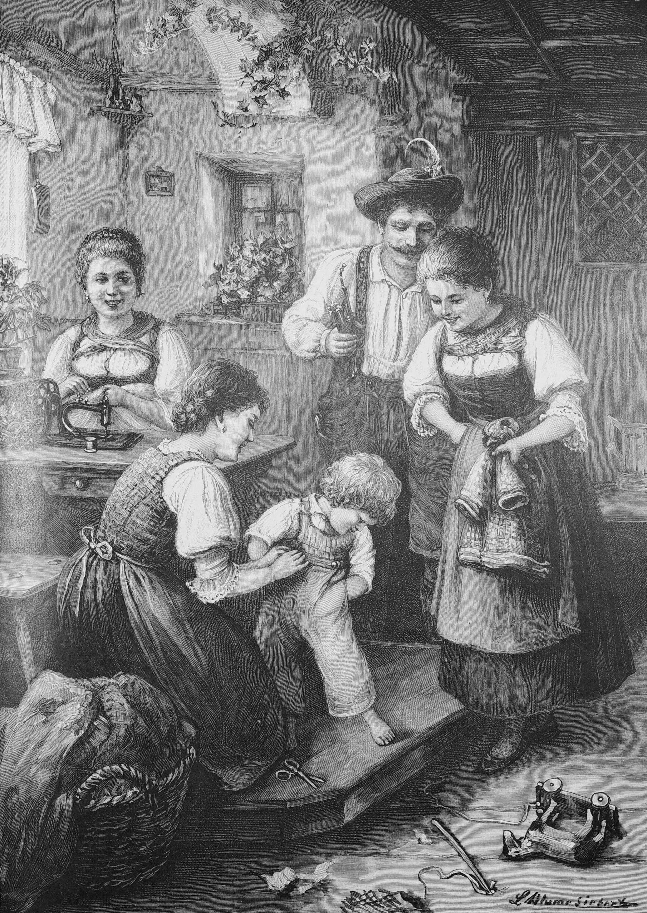 Page 649 from journal Die Gartenlaube for 1897. Extracted image (if any): File:Die Gartenlaube (1897) b 649.jpg - hi res, ~2.5 MB.